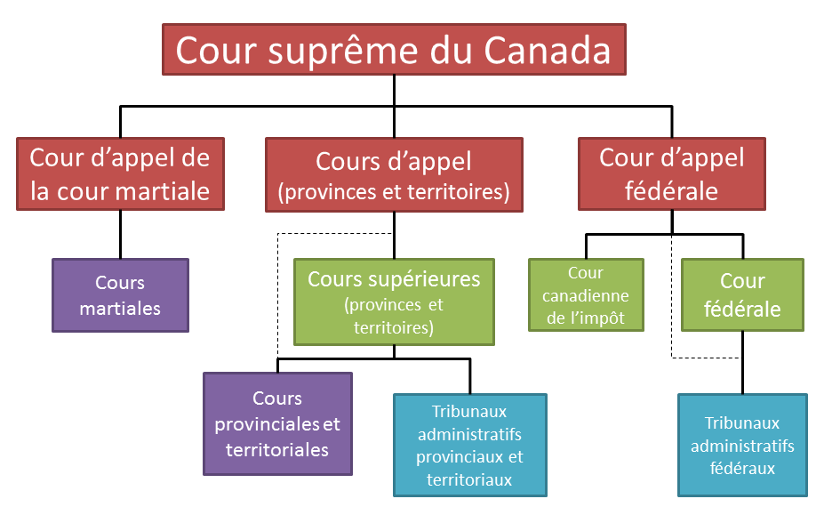 Schema of the Canadian judicial system (colors represent the types of tribunals)